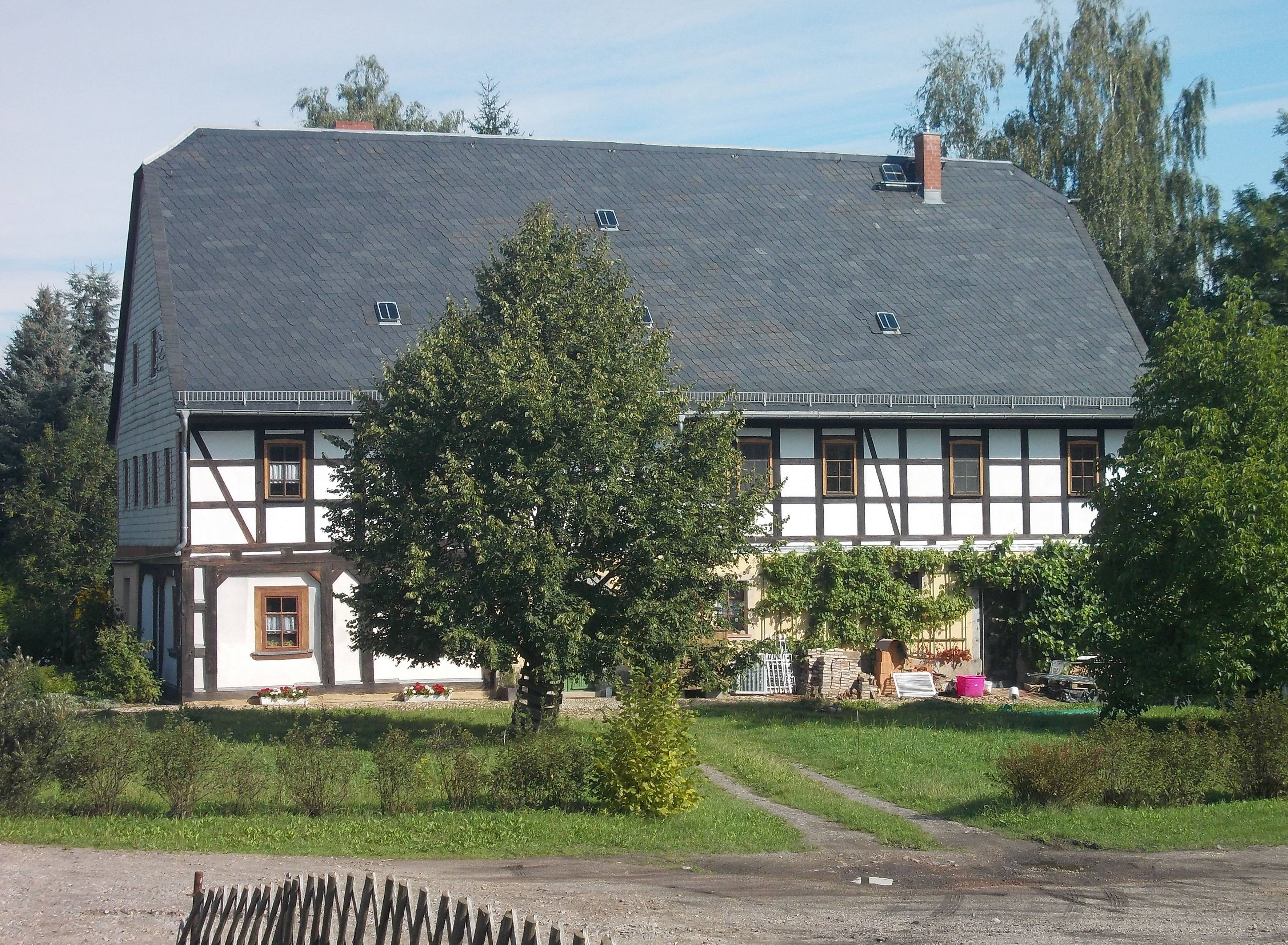 Half-timbered house in Seiferitz (Meerane, Zwickau district, Saxony)